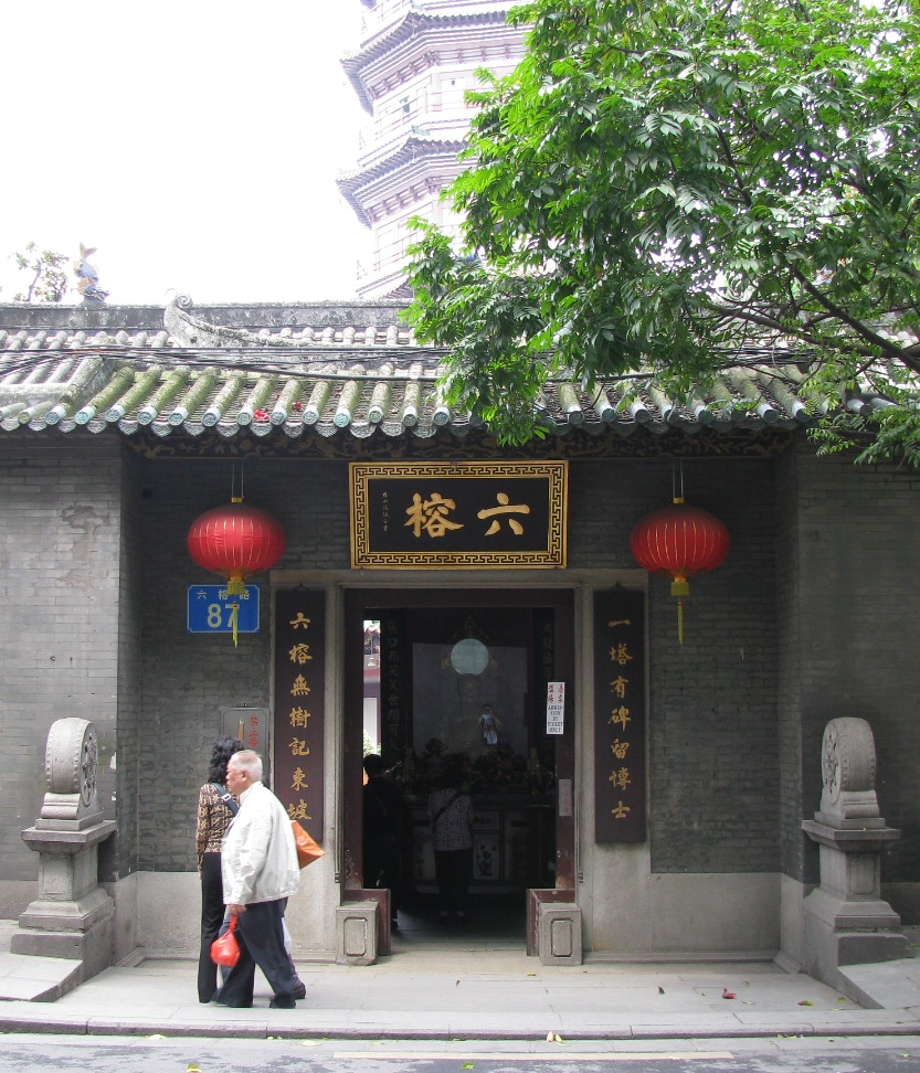 The gate of Liurong Si Guangzhou, China.中国广州六榕寺大门。